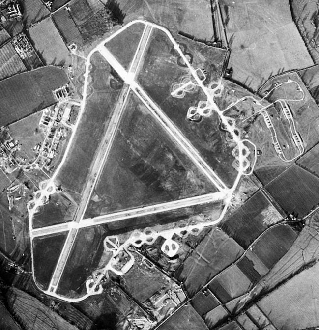 Aerial photograph of Down Ampney airfield. The bomb dump is to the right (east) of the airfield, the technical site and barrack sites are to the left, 4 December 1943. Photograph taken by 7th Photographic Reconnaissance Group, sortie number US/7PH/GP/LOC97. English Heritage (USAAF Photography).